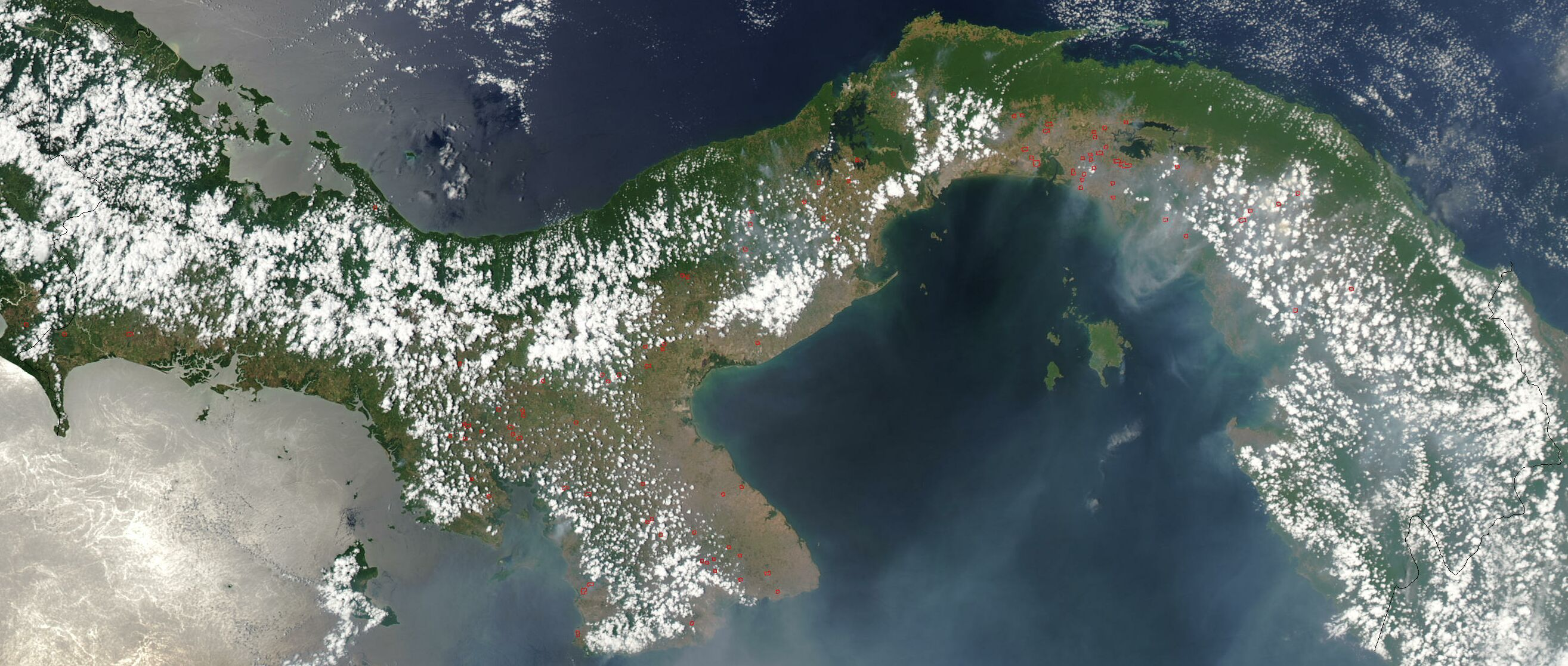 Satellite image of Panama in March 2003.